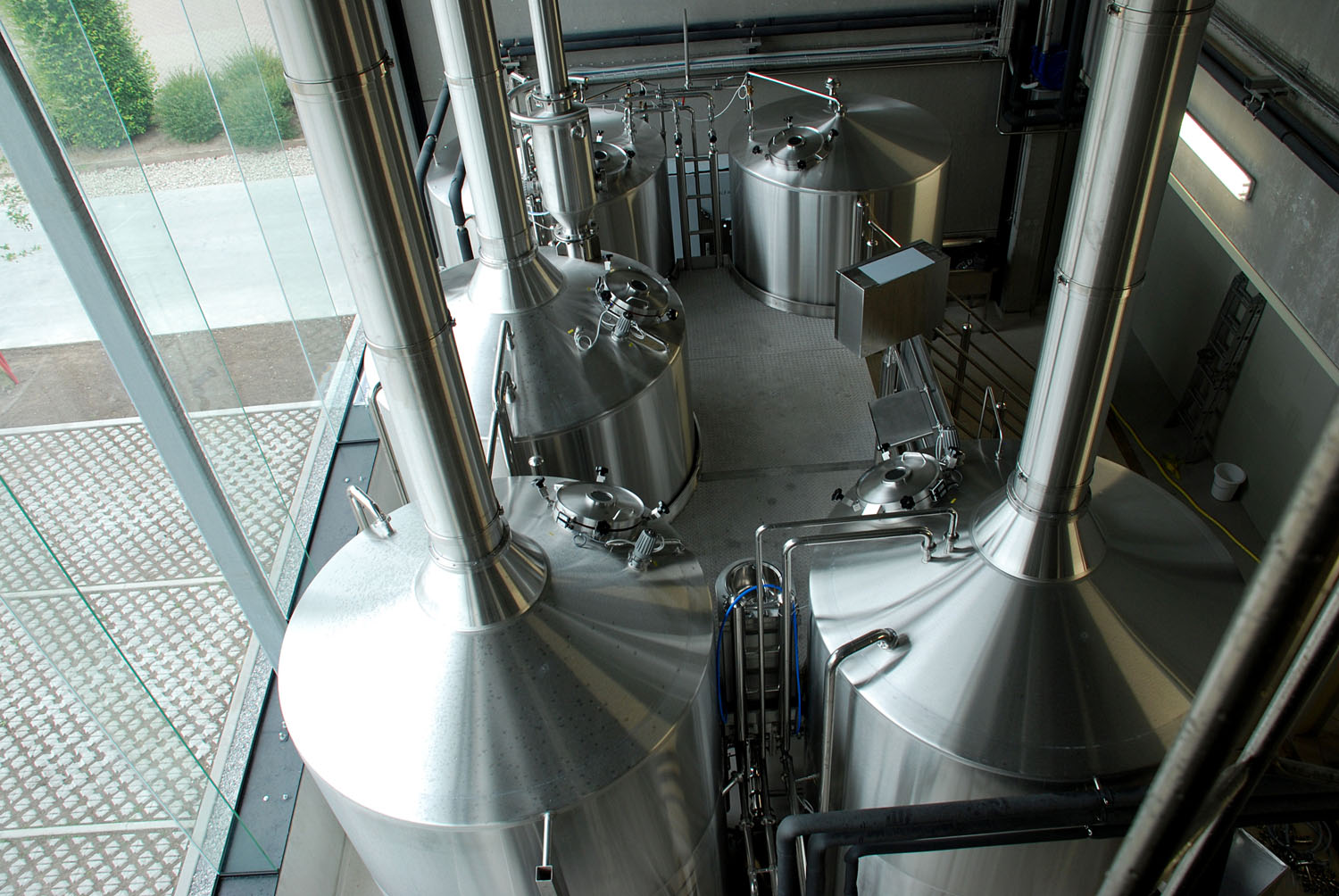 Brewery Dilewyns, Belgium